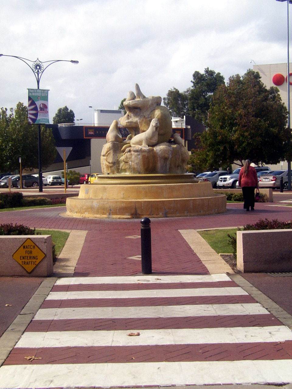 Fountain on traffic roundabout on Bishop Street in Morley, Western Australia. Kodak DX3215 digital camera